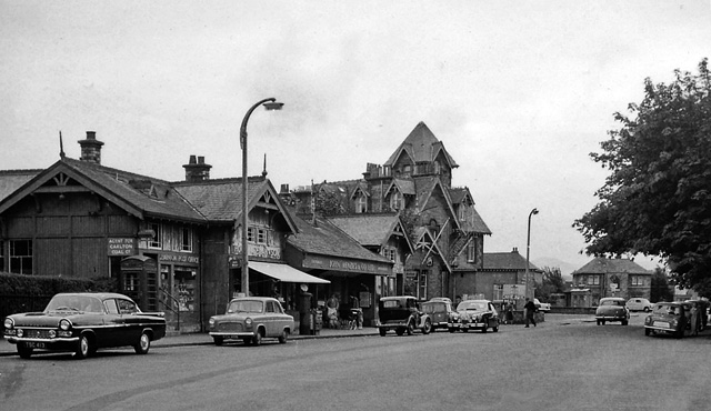 Barnton Station (remains). View eastwards, the former Station on the left; terminus of line from Edinburgh (Princes Street) via Craigleith, which was closed (from Craigleith) 11 years earlier on 7/5/51.